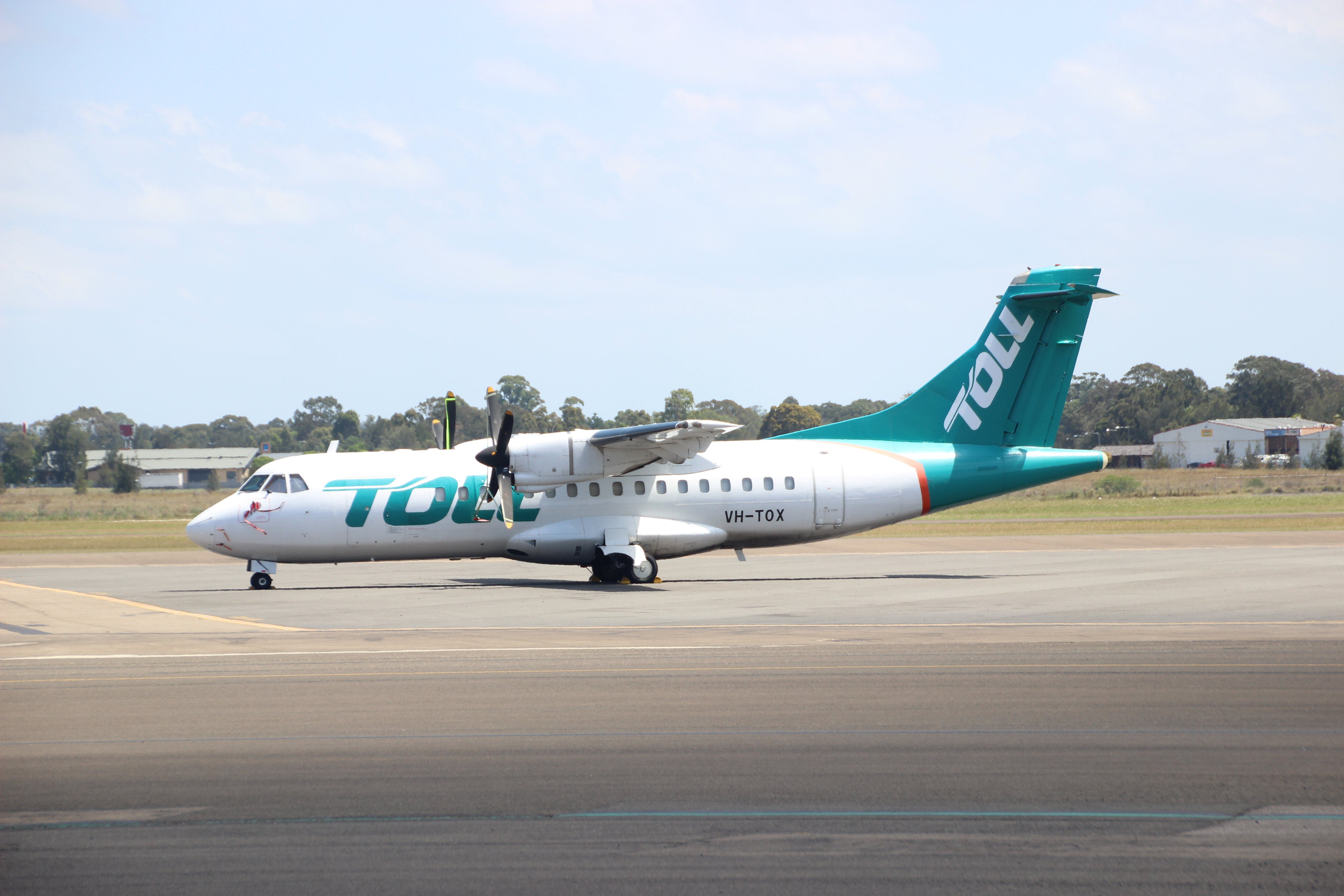 Toll Aviation ATR 42 cargo aircraft (one of two operated) parked at Bankstown Airport in Sydney, Australia. Digital image of VH-TOX taken by YSSY on 11 November 2016 and uploaded for use in the Bankstown Airport article. YSSYguy (talk) 00:29, 15 November 2016 (UTC)